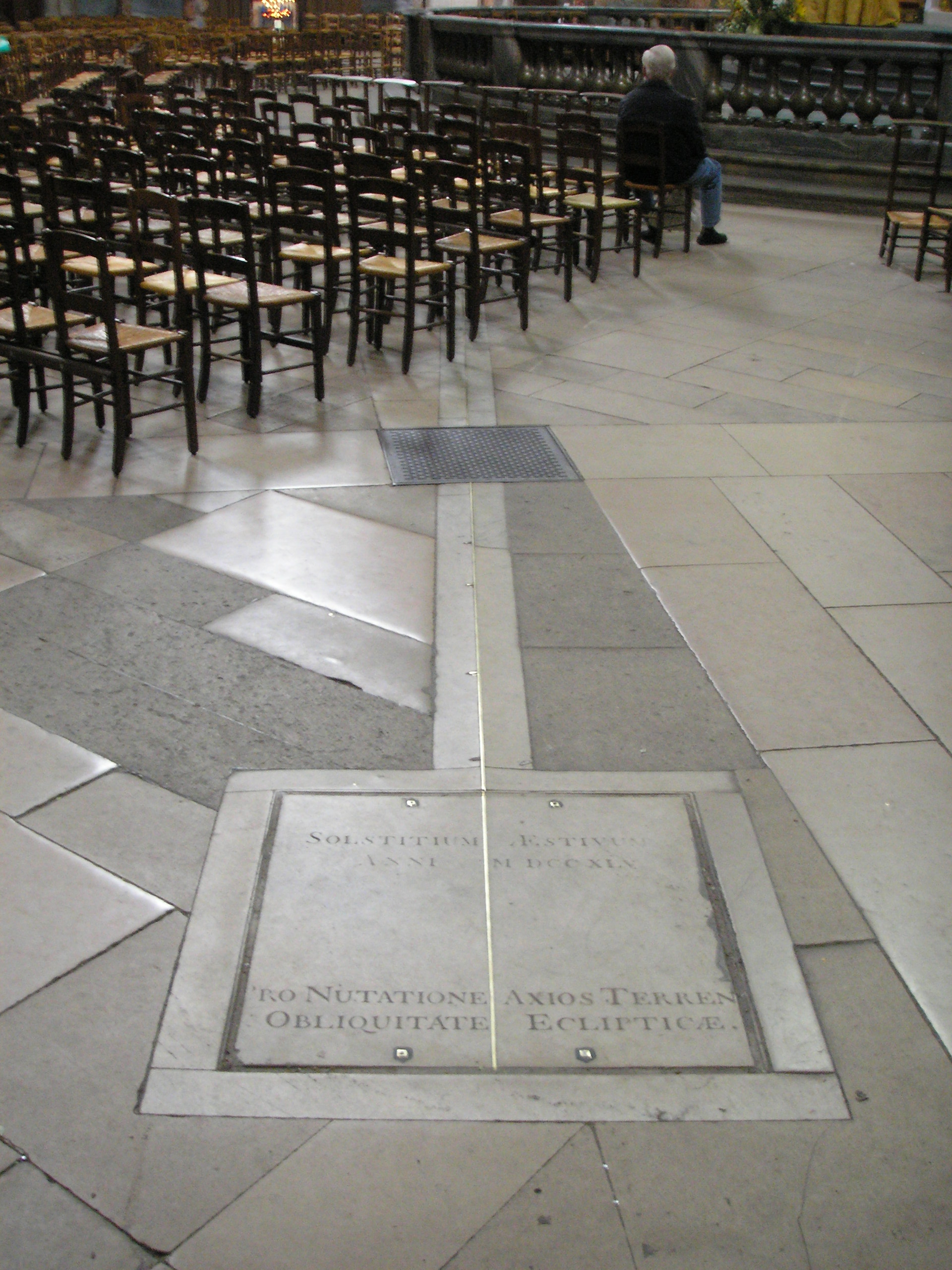 Interior view of the Church of Saint-Sulpice, Gnomon.